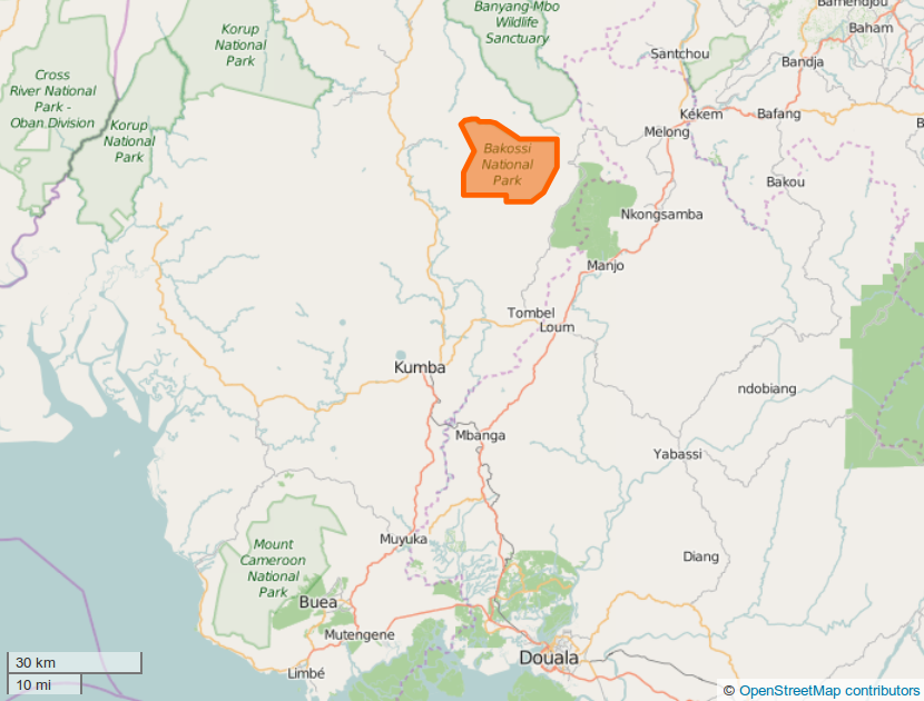 OSM map of Bakossi ː national park. This map may be incomplete, and may contain errors. Don't rely solely on it for navigation.